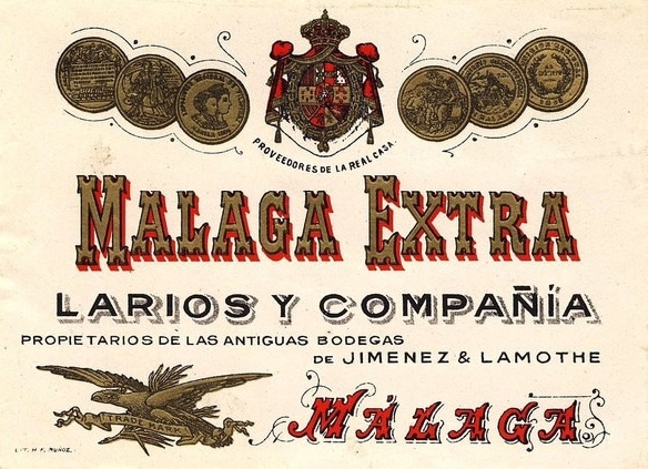 Advertisement of Larios Gin.